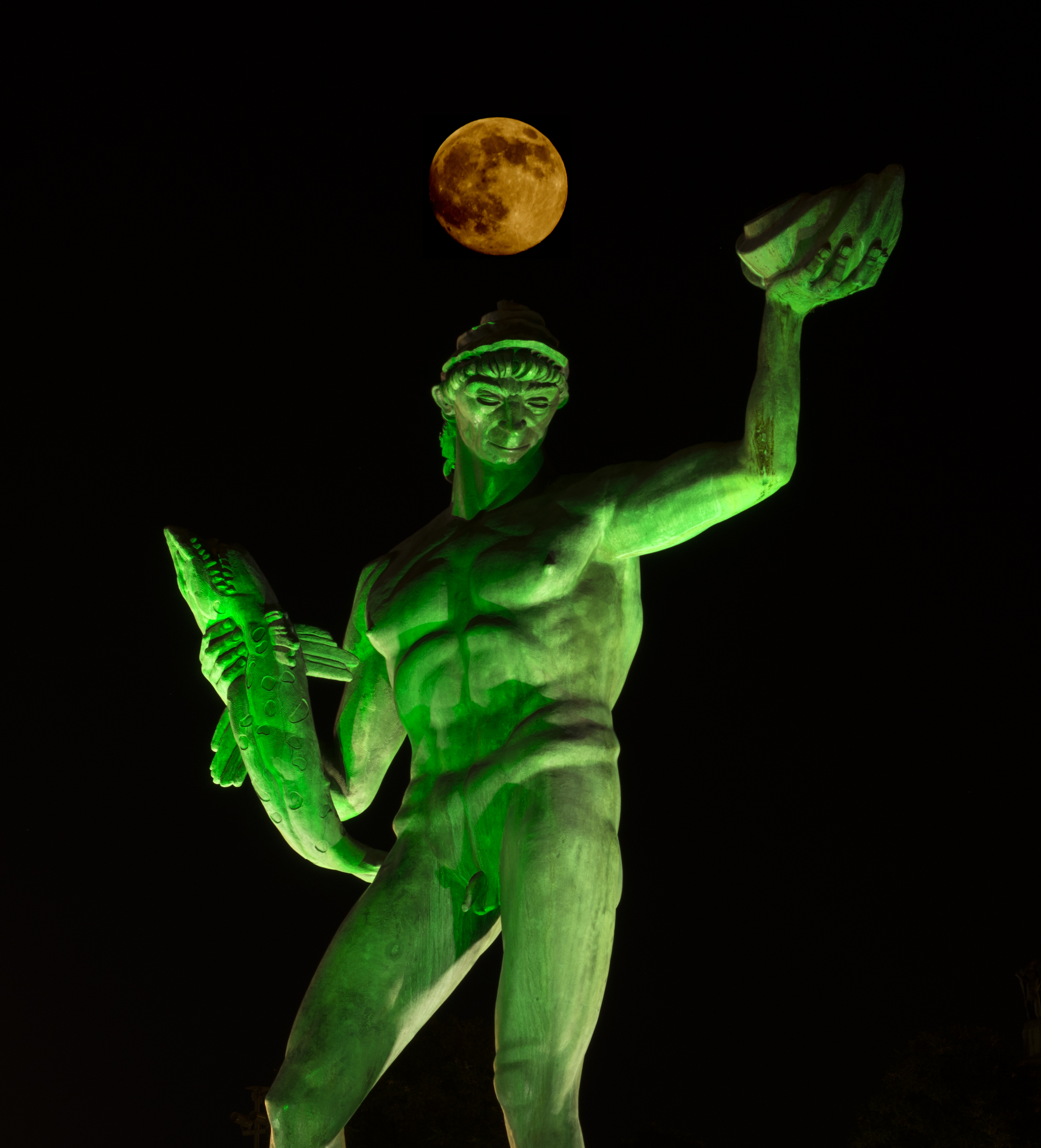 Poseidon statue at Götaplatsen, Gothenburg, Sweden